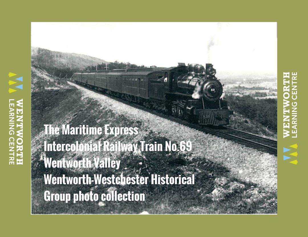 The Maritime Express, travelling through the Wentworth Valley near Truro Nova Scotia, Canada. The photo is used on hand painted postcard and is depicted on the Dominion of Canada $5 bank note, of May 1, 1912.